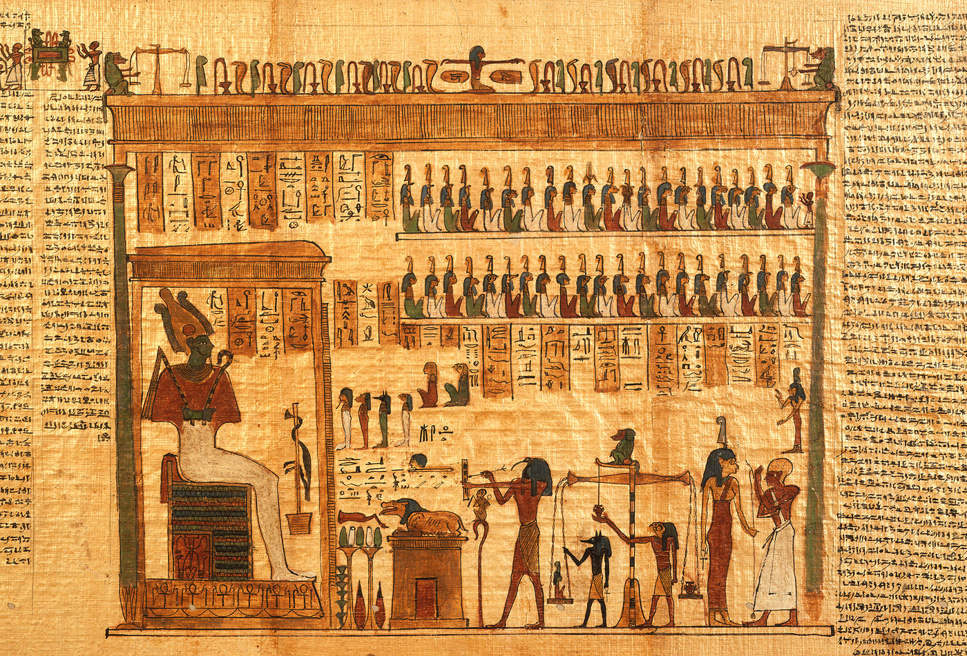 Osiris